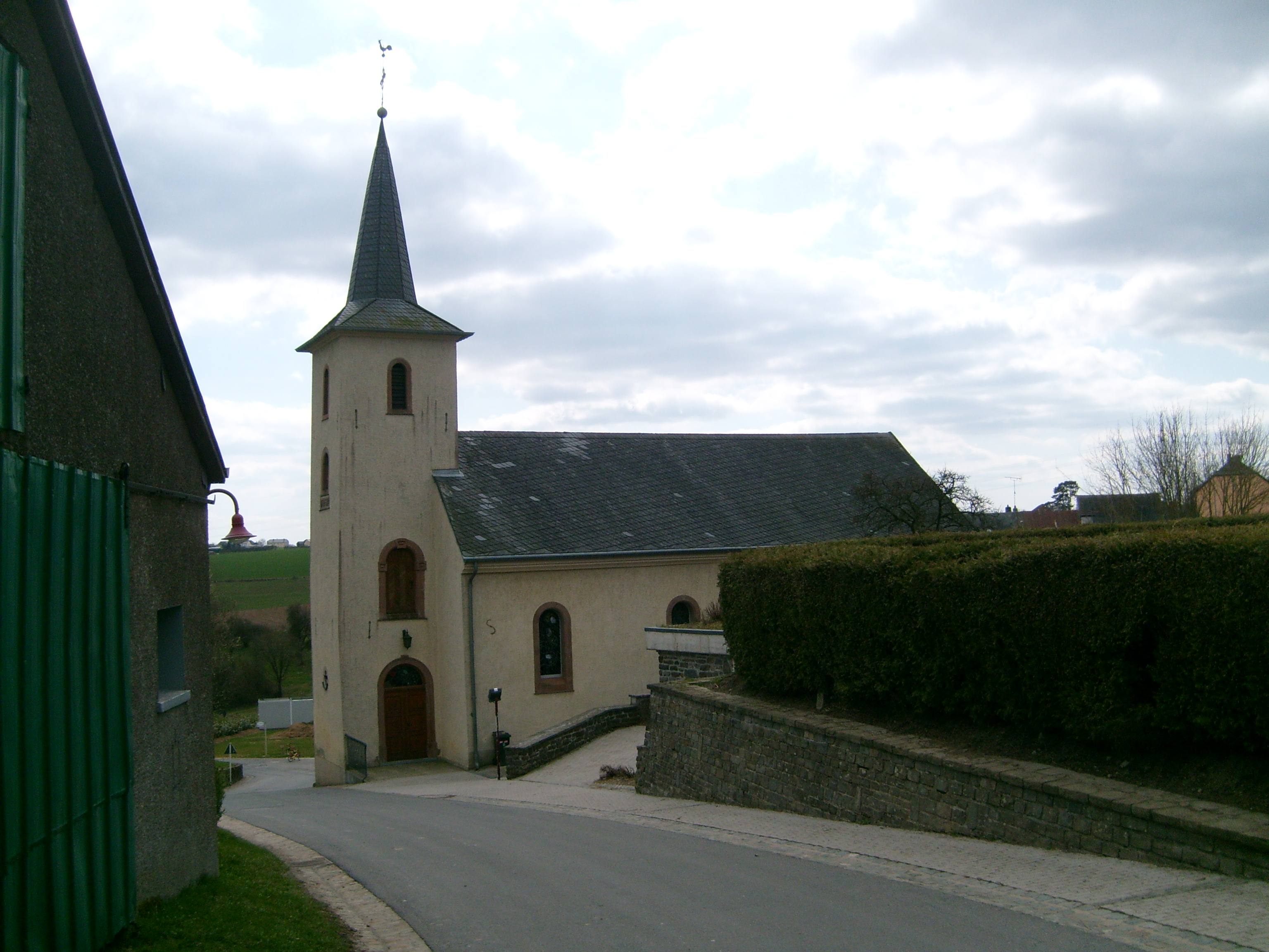 Church of the village of Nocher, Oesling, Luxembourg.